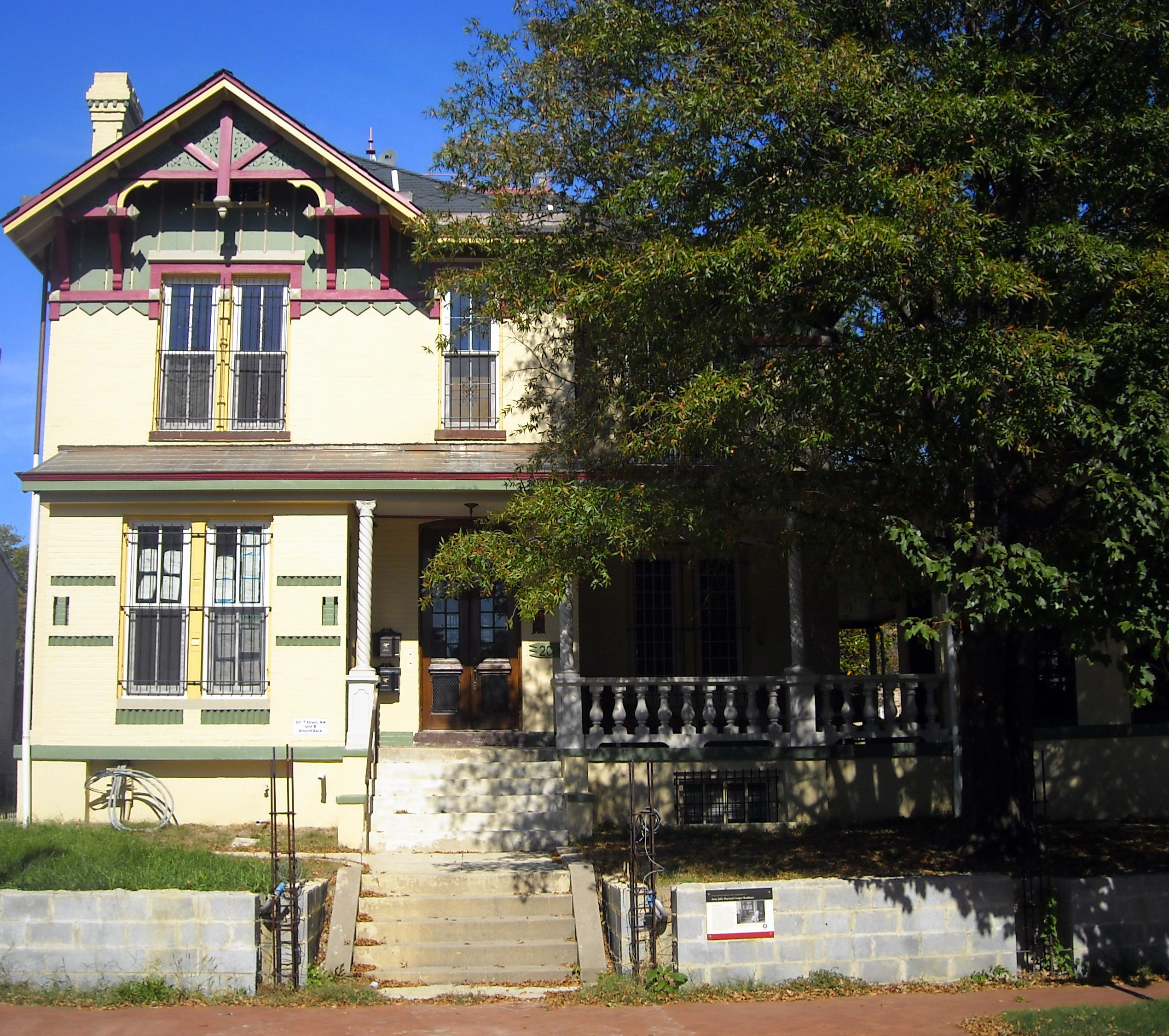 Former home of Anna J. Cooper located at 201 T Street, NW in the LeDroit Park neighborhood of Washington The building is a contributing property to the LeDroit Park Historic District.